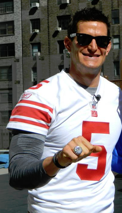 Steve Weatherford, New York Giants punter